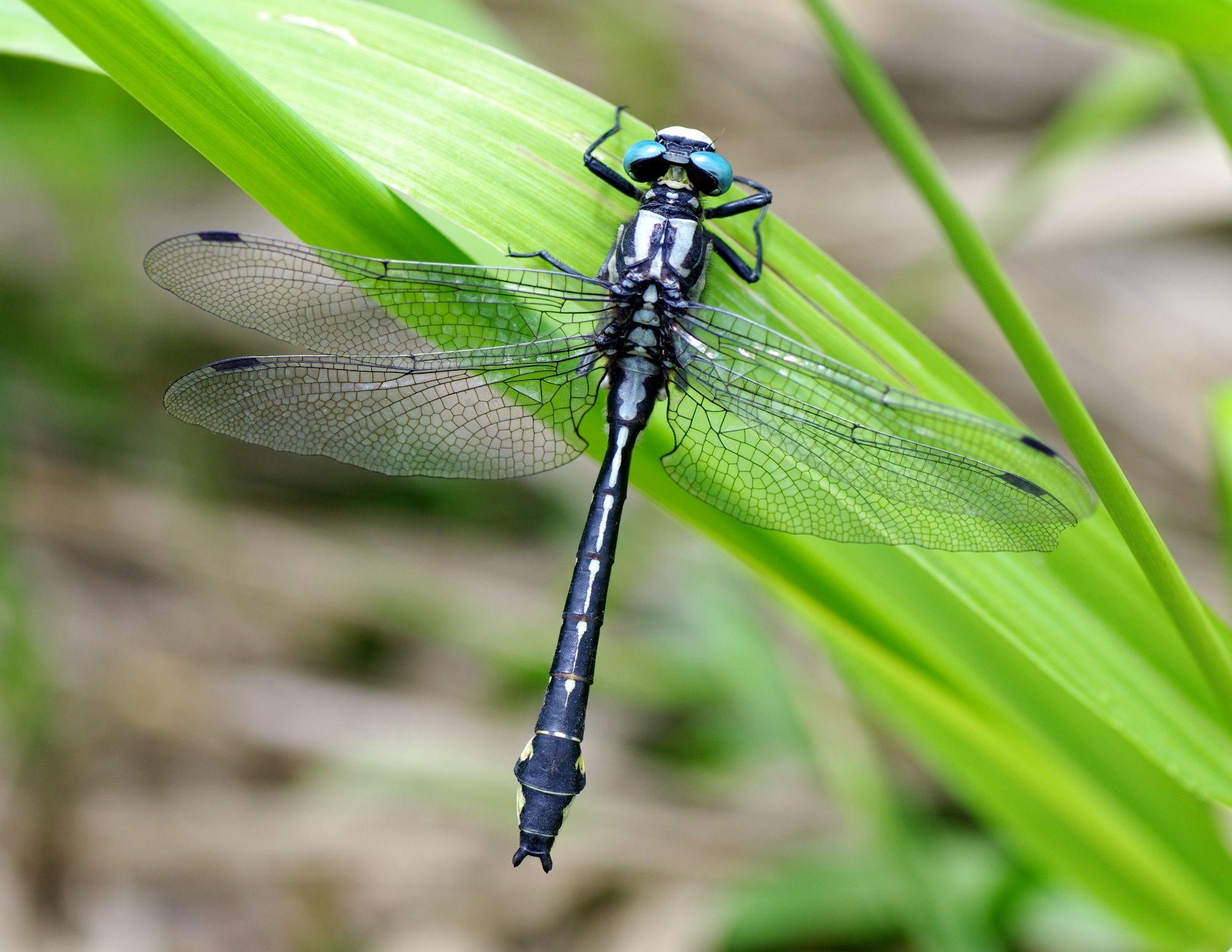 Adult male Common Club-tail (Gomphus vulgatissimus).